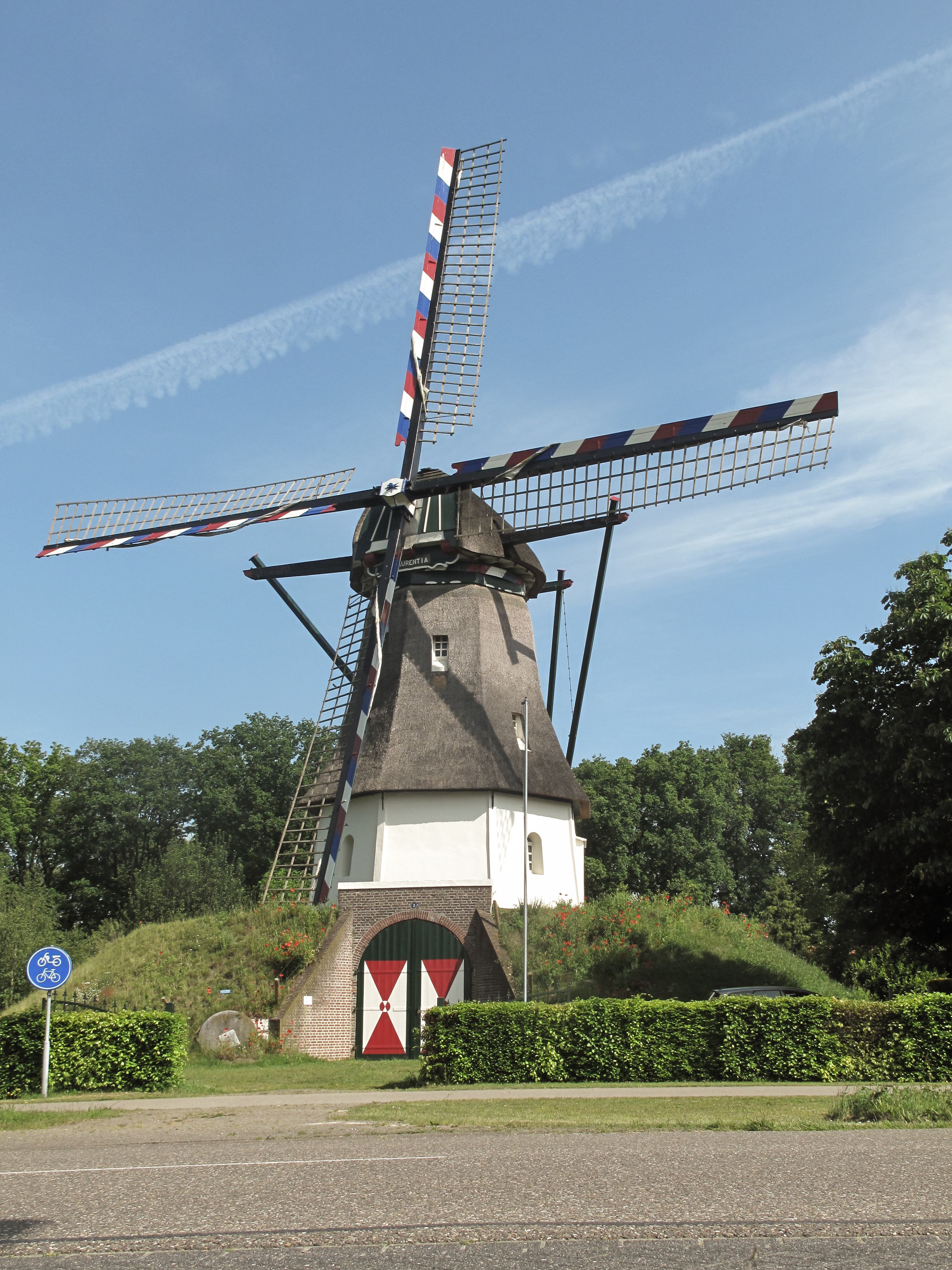 Milheeze, windmill: de Laurentiamolen